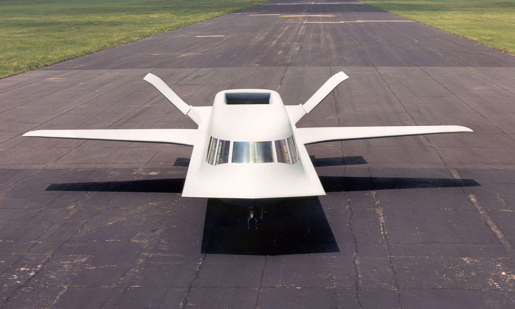 Tacit Blue Whale at the National Museum of the United States Air Force.